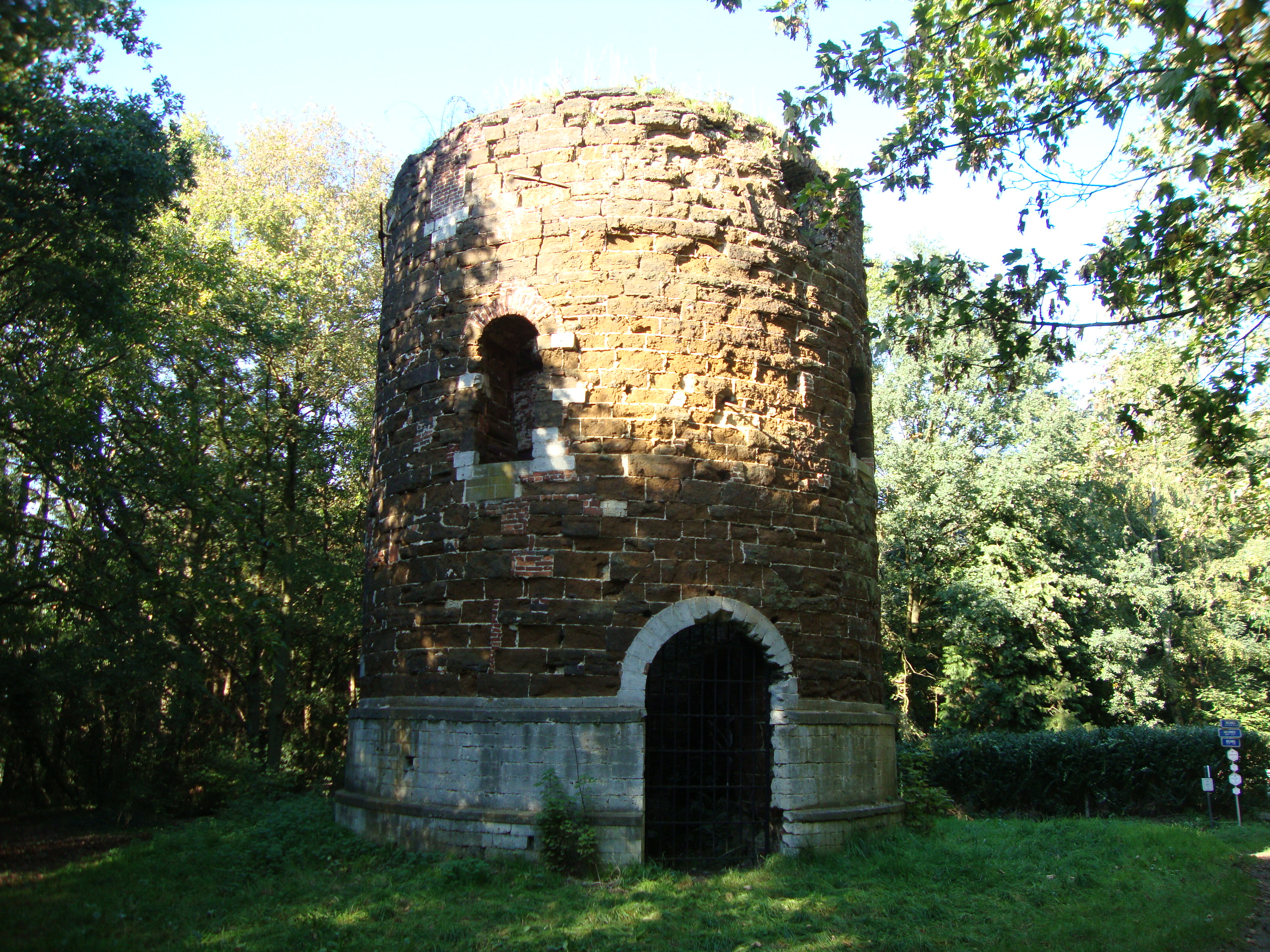 Old round tower of iron sandstone and sandstone